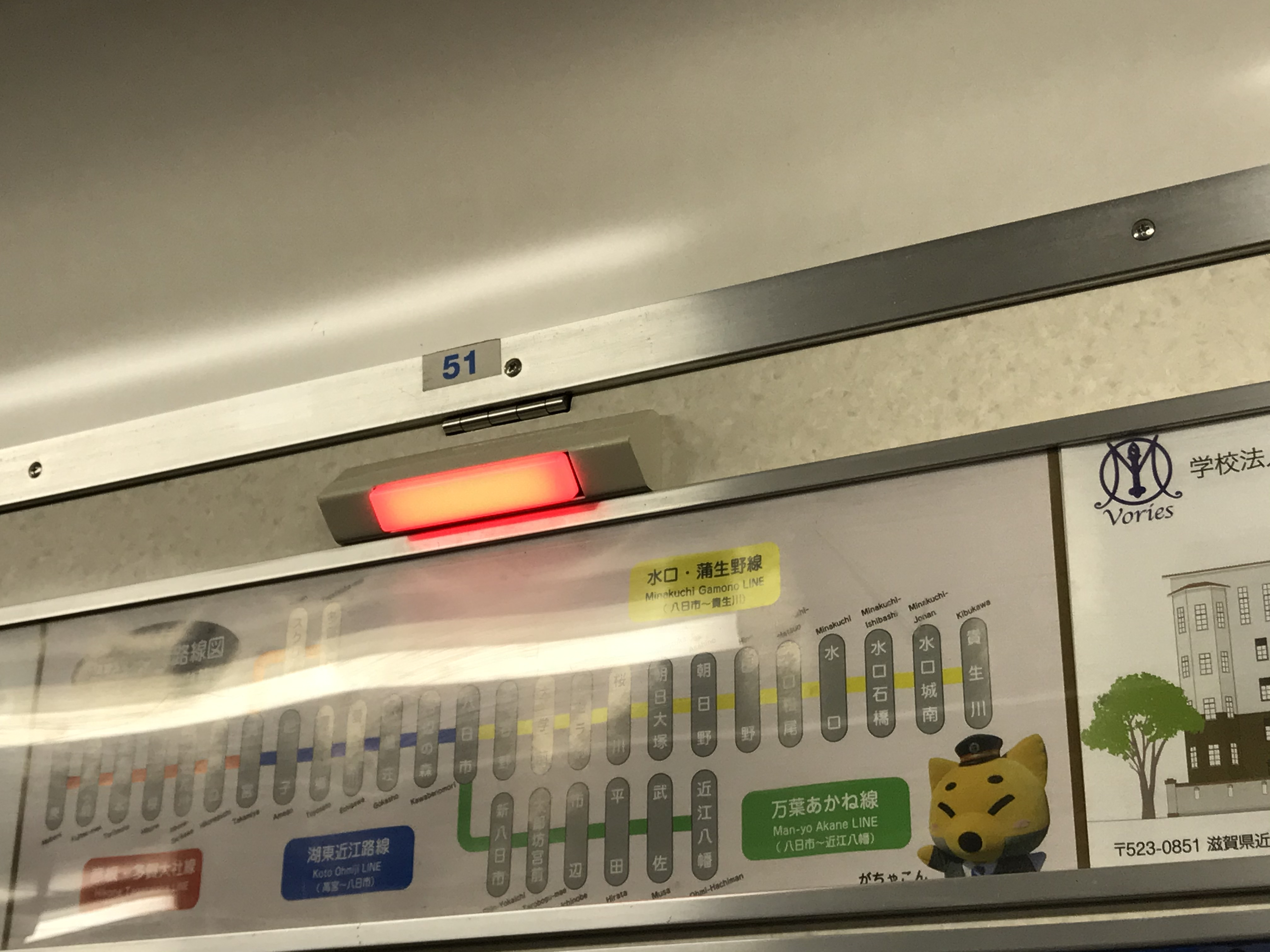 Door moving indicator on Ohmi railway 1105